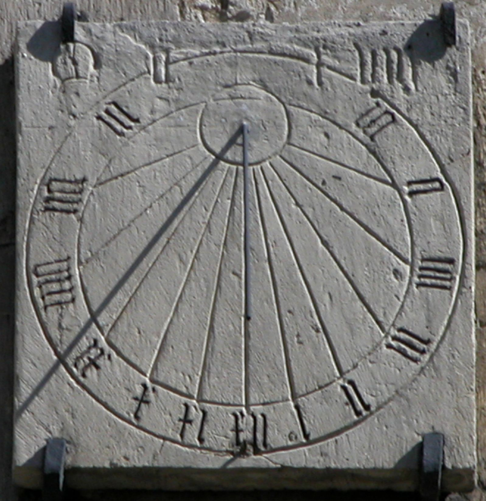 Brunswick Cathedral, Sundial from XVI w.